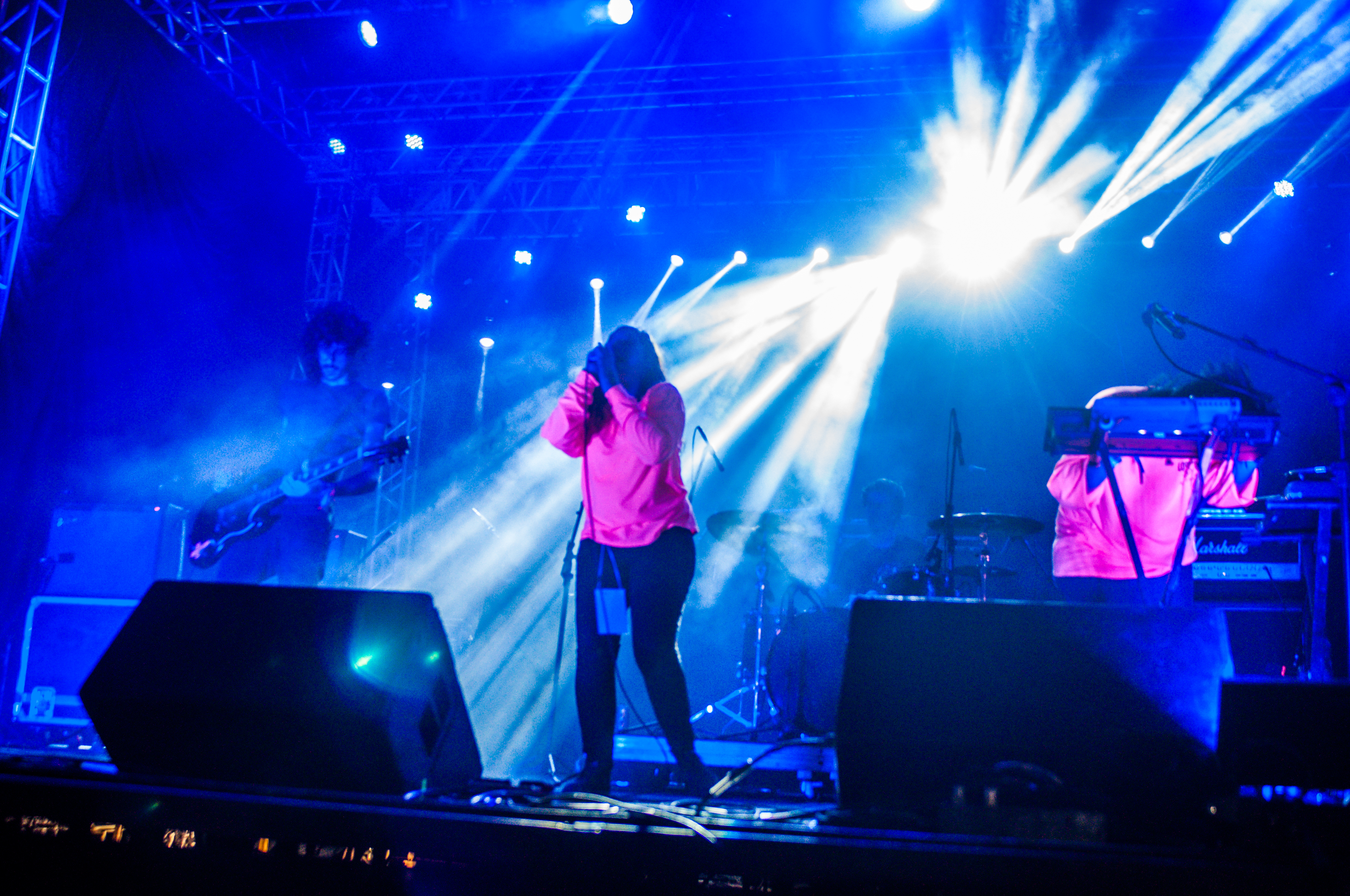 The Brazilian stoner rock band Far From Alaska live in May 2017. From left to right: Rafael Brasil, Emmily Barreto, Lauro Kirsch and Cris Botarelli. Eduardo Figueira is not shown in the picture.